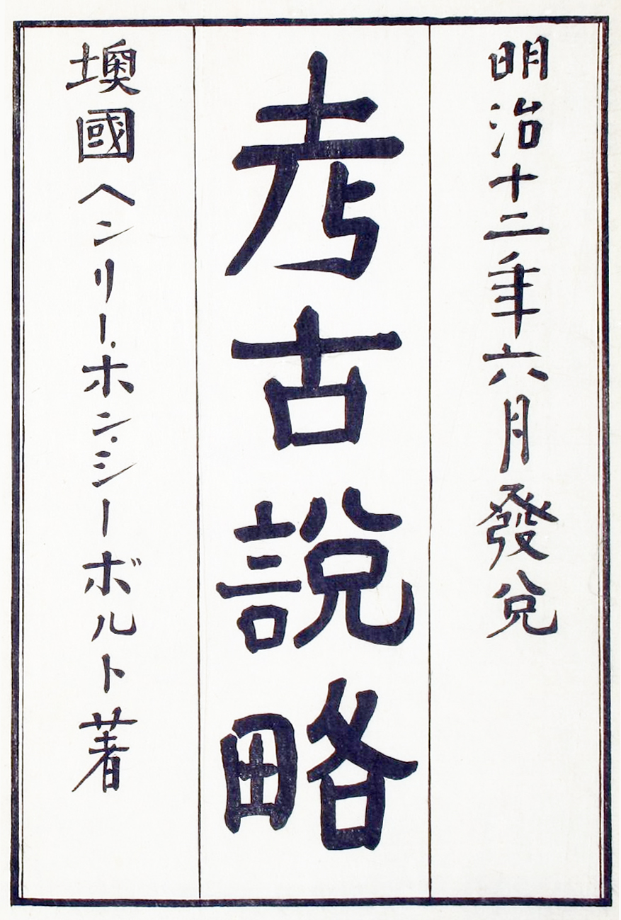 Henry von Siebold: Kōkosetsu ryaku. Tokyo, 1879 (Title page)